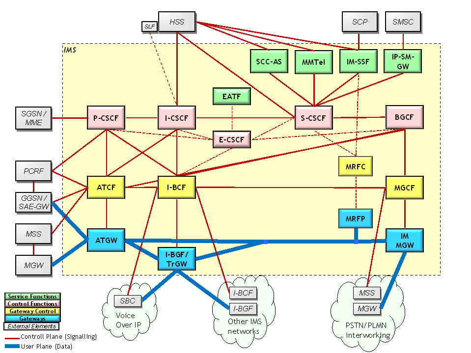 Structure of the "IP Multimedia Subsystem"